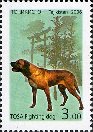 Stamps of Tajikistan, portraying Japanese Tosa